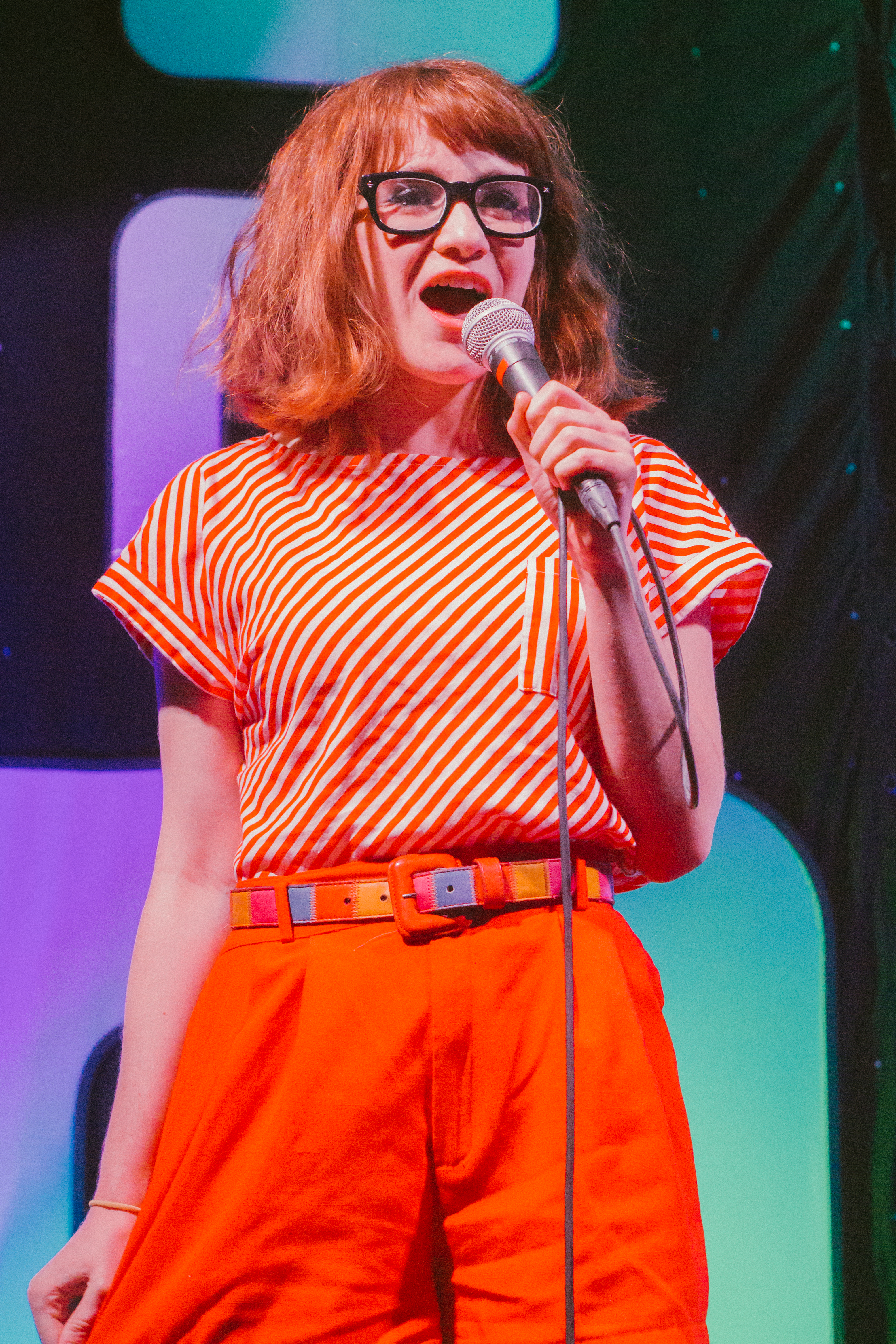 Noel Wells at the 2014 Moontower Comedy Festival, Austin, Texas